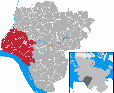 This map shows the area of the Amt (county) Wilstermarsch in the Kreis (district) Steinburg, Schleswig-Holstein, Germany.